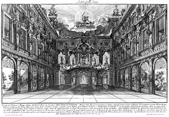 Cortile del Palazzo Altemps - La contesa dei numi - Rome 1729